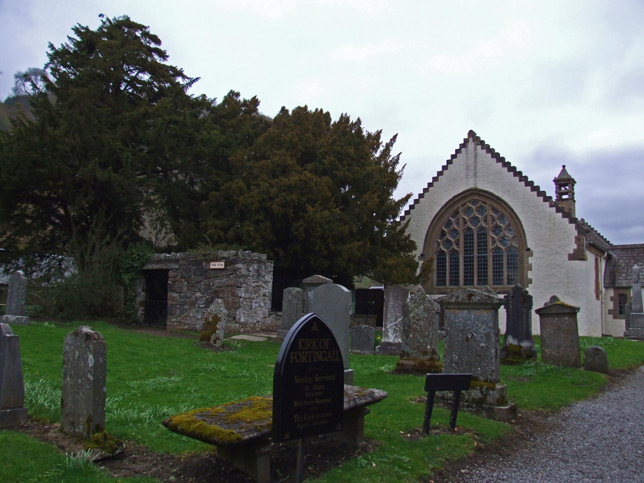 Ancient Fortingall Yew and Church